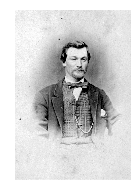 Photo taken 1869 Photographer: Lois Blanc Source # B-04915 [1]